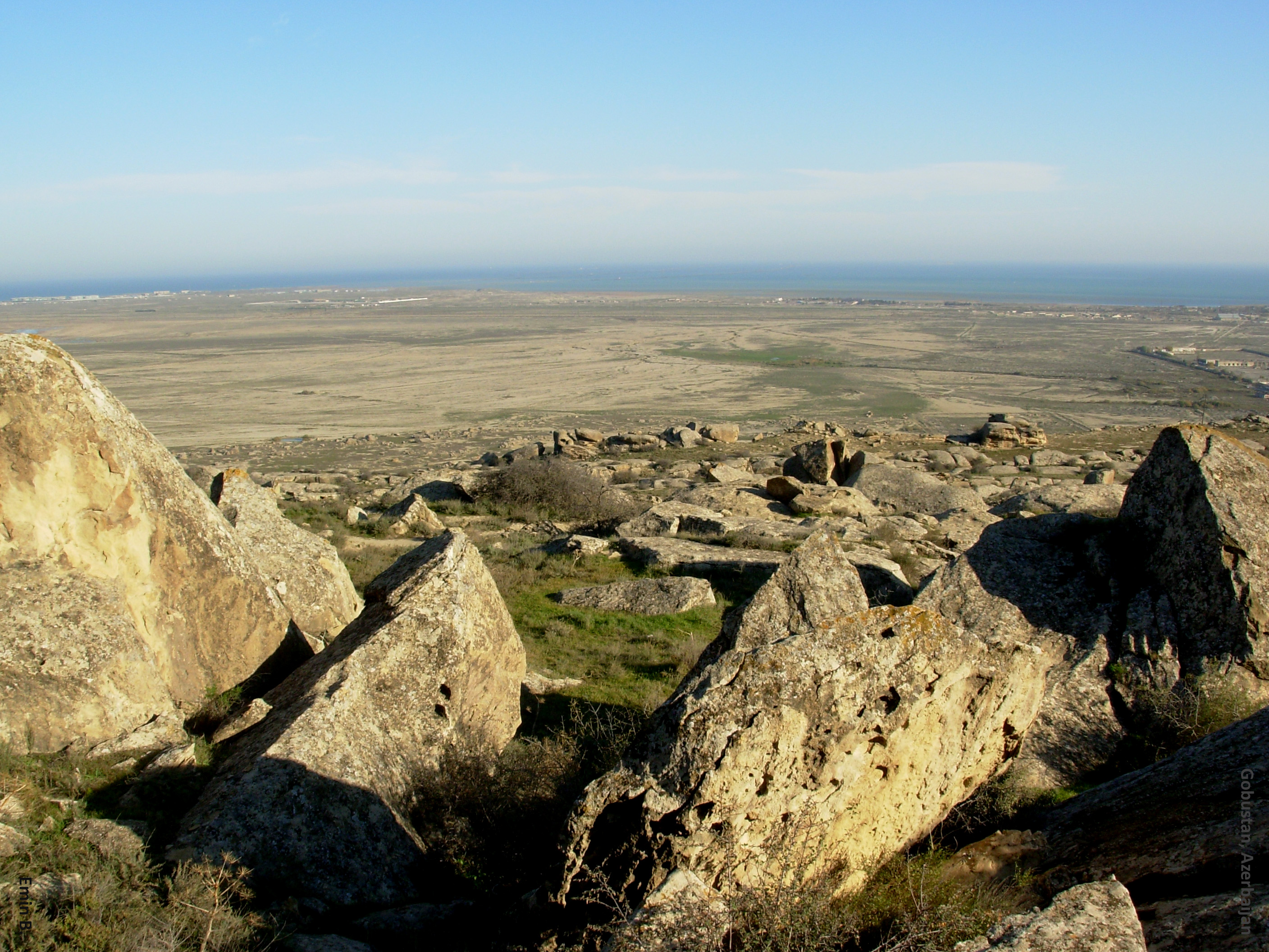 Gobustan, Azerbaijan 2008